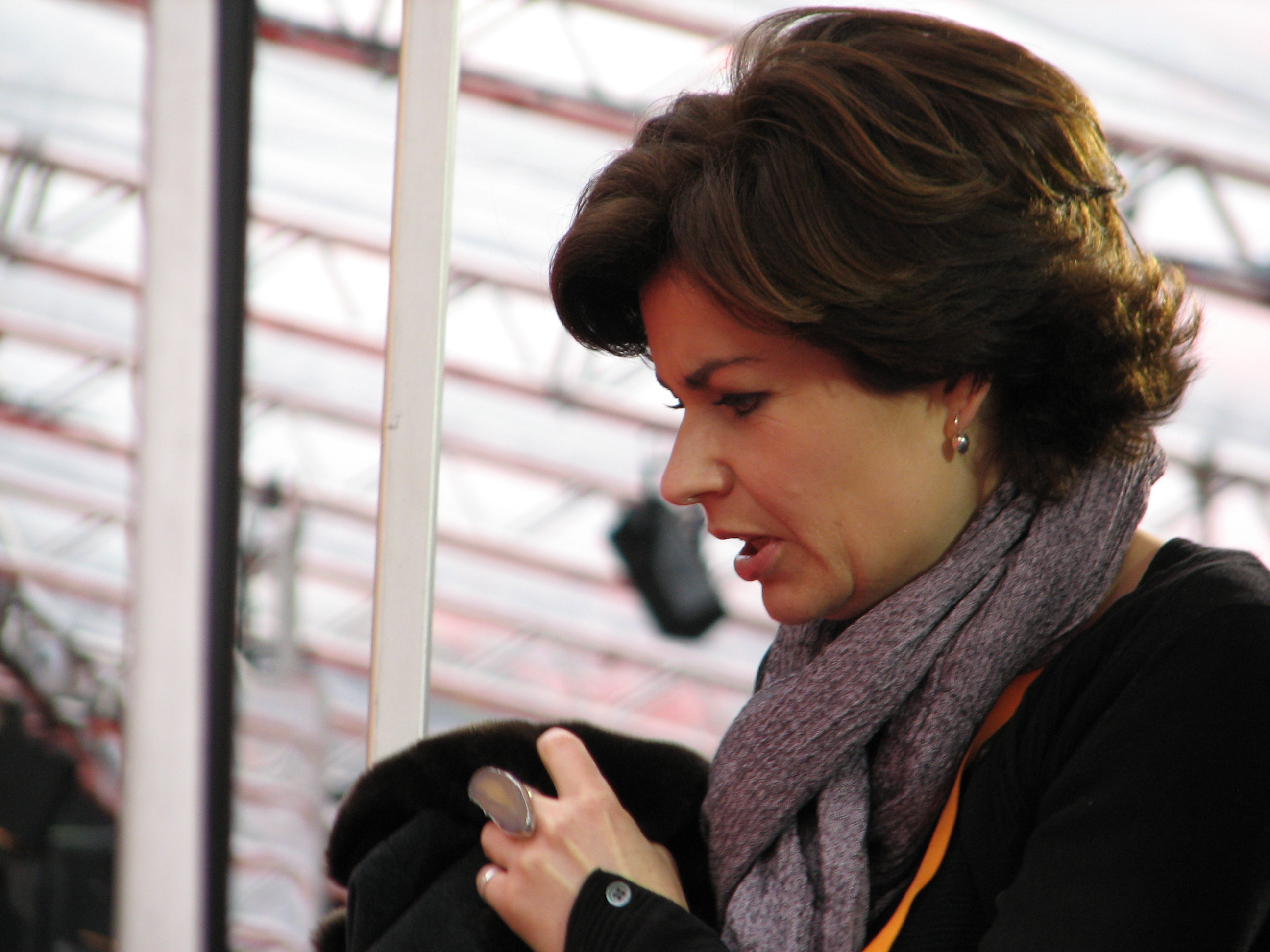 Jane Hill at the 63rd British Academy Film Awards.